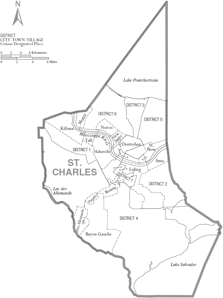 Map of St. Charles Parish, Louisiana, United States with municipal and district boundaries